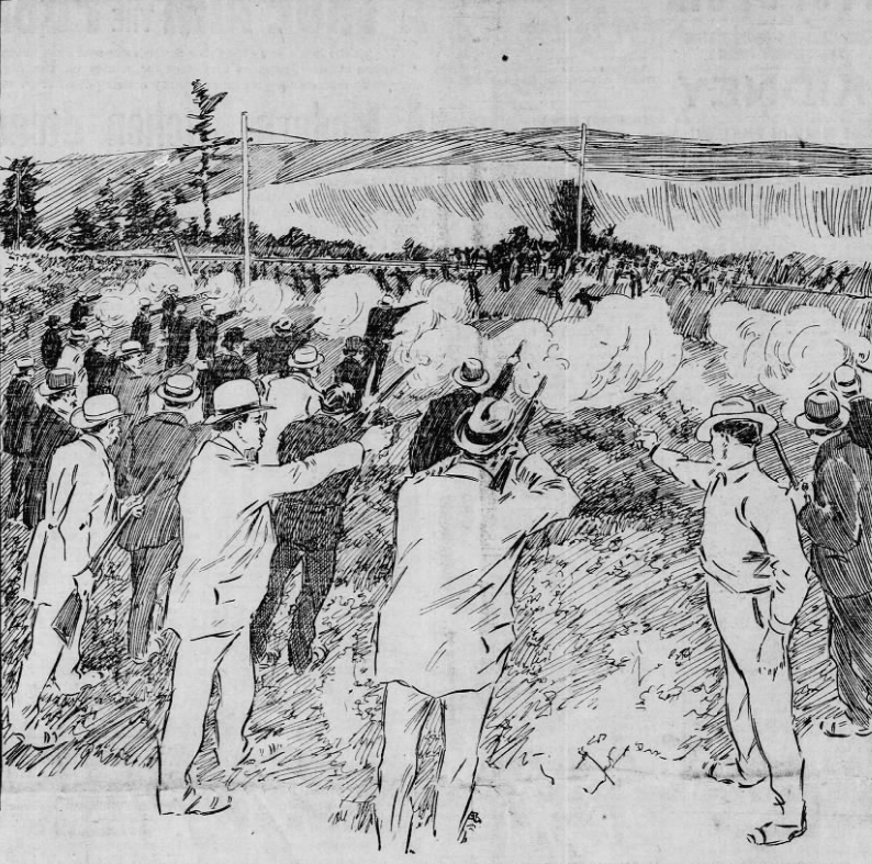 Image from the Philadelphia Inquirer depicting striking miners being shot by deputized posse during the Lattimer massacre in 1897 in Pennsylvania.